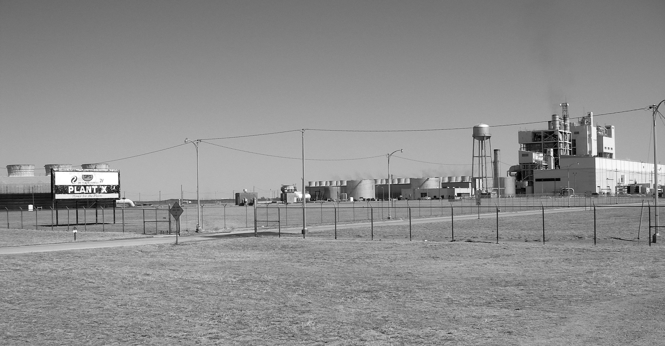 Plant X, a natural gas-fueled, steam-electric generating station, located in the sandhills to the south of Earth, Texas.